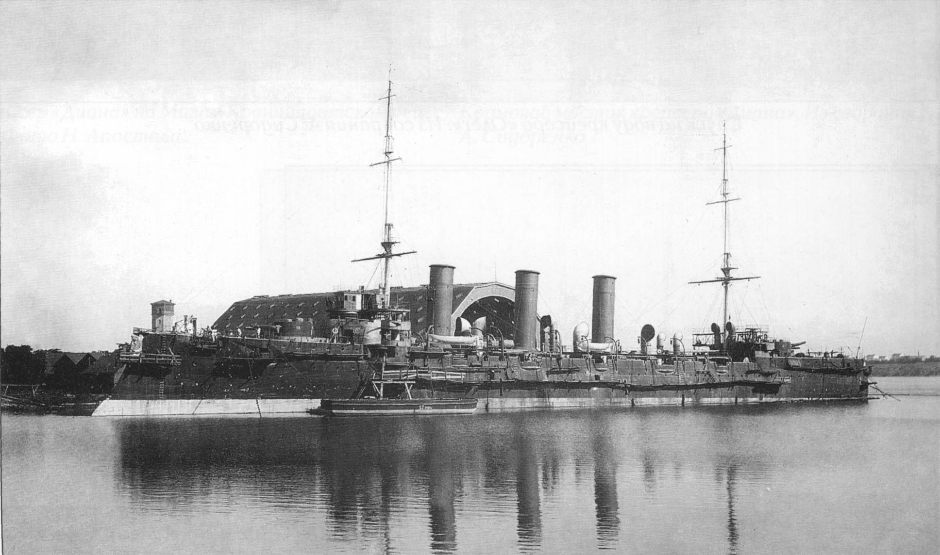 Imperial Russian cruiser Ochakov, later Kagul, General Kornilov, in Sevastopol'.